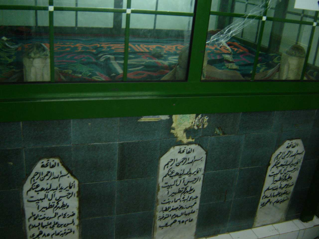 Baab Sagheer:Tombs of: (From left to right) 1. - Maymunah (Umm-al-Hassan), daughter of Imam Hasan (A.S.) 2. - Asma Bint 'Umays, wife of Ja'far at-Tayyaar 3. - Hameedah, daughter of Muslim Ibn Aqeel